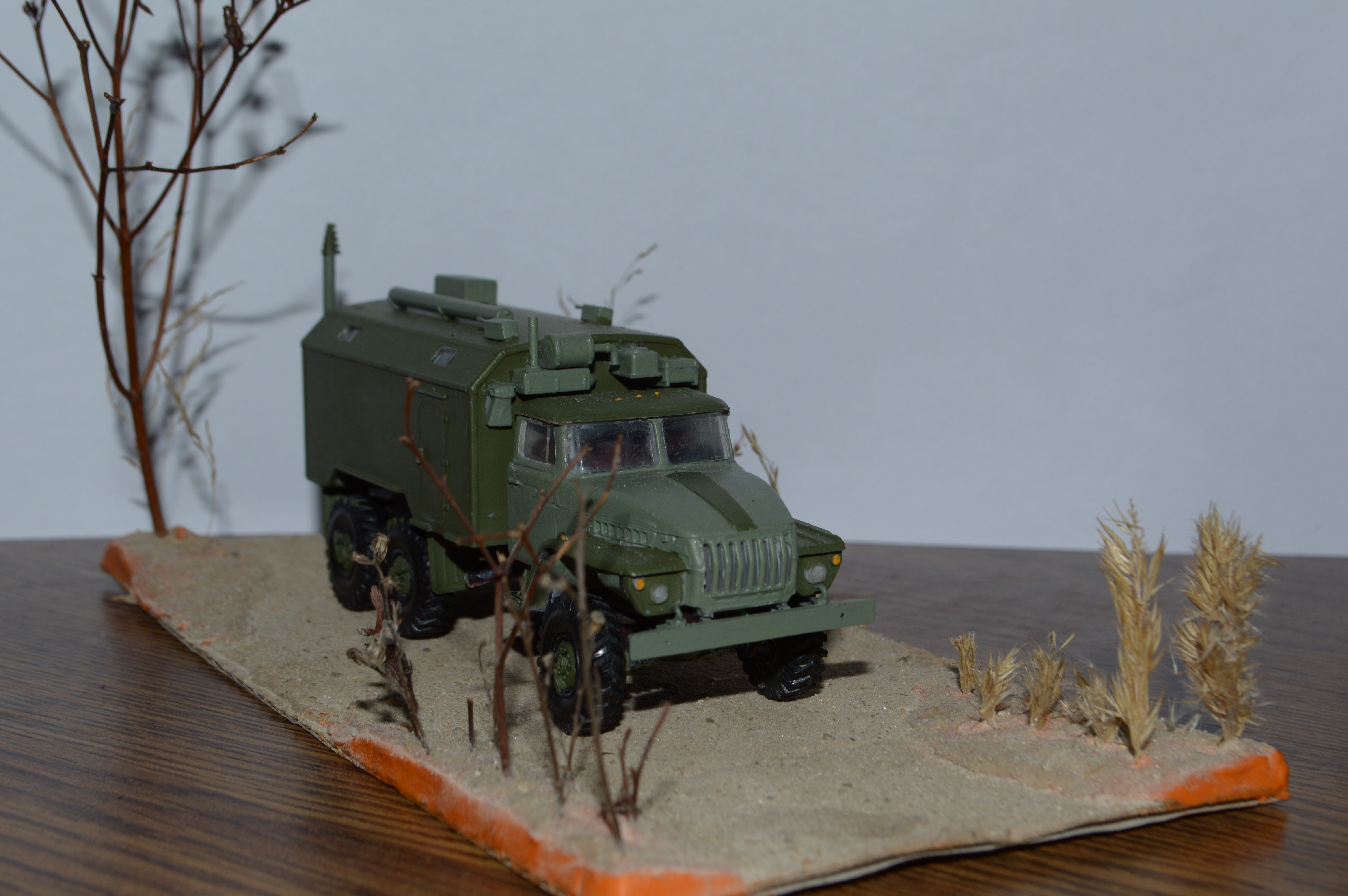 Model Ural-43203. Author - Olexander Rozumenko. Imitation of terrain is made using plasticine with granite sand. At the professional level models using also special mixes. To simulate vegetation used real dried plants.